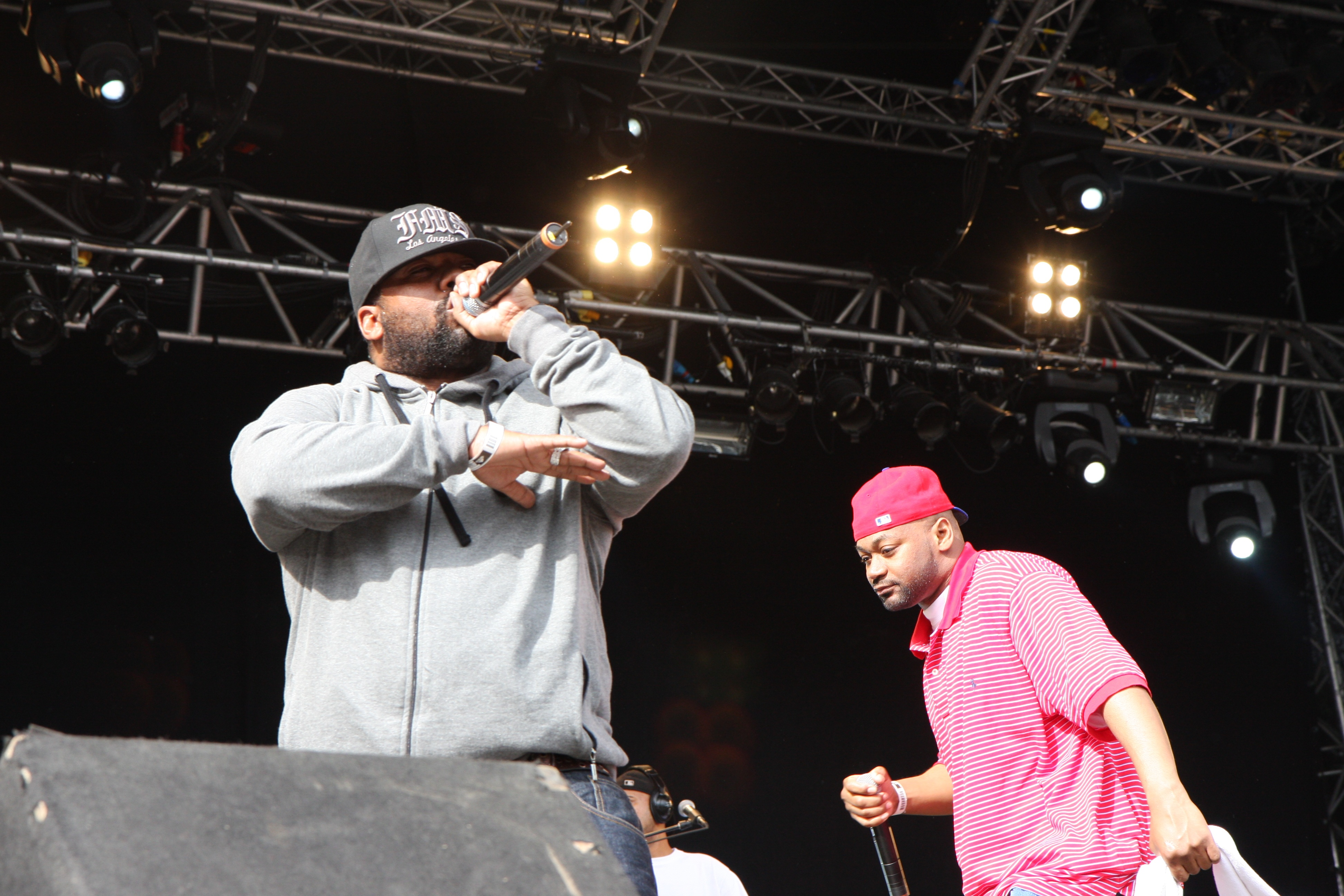 Raekwon & Ghostface Killah at Way Out West Festival, 2010